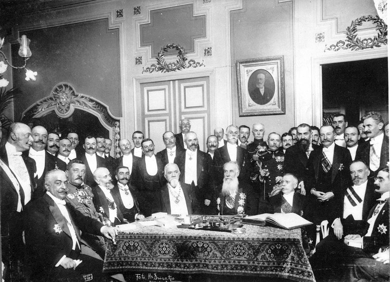 Bucharest Peace Conference delegates (1913). Among those pictured: Eleftherios Venizelos; Titu Maiorescu; Nikola Pašić (sitting in the center); Dimitar Tonchev; Constantin Dissescu; Nikolaos Politis; Alexandru Marghiloman; Danilo Kalafatović; Constantin Coandă; Constantin Cristescu; Take Ionescu; Miroslav Spalajkovic; and "T. Vukotich" (Janko Vukotić?).